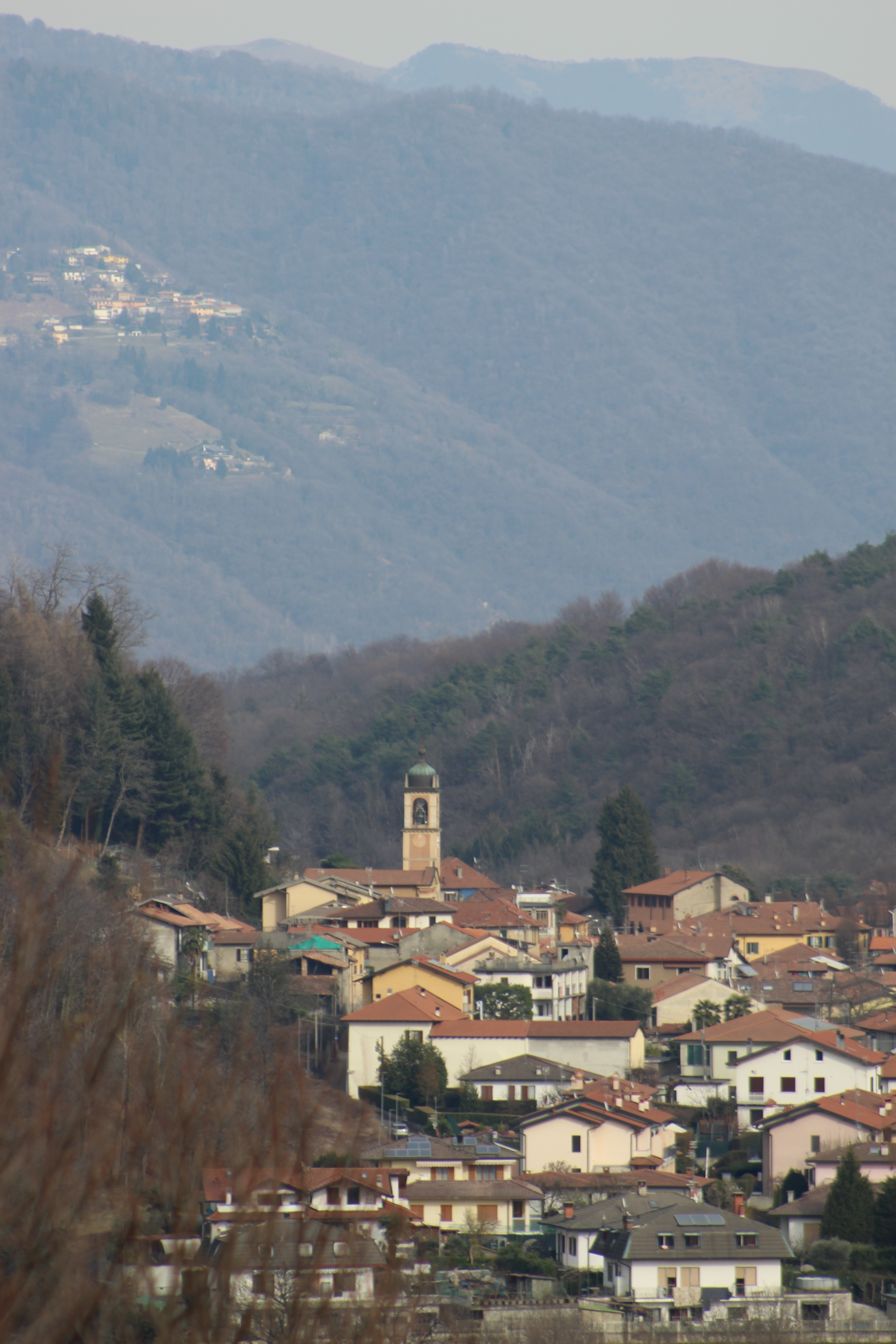 Bizzarone (with S. Evasio church tower bell). In background: a part of the Swiss village of Breggia